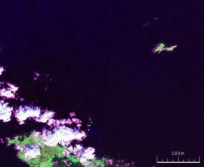 NASA World Wind Geocover 2000 image of Inistrahull Island and Tor Rocks, the northernmost features of Island